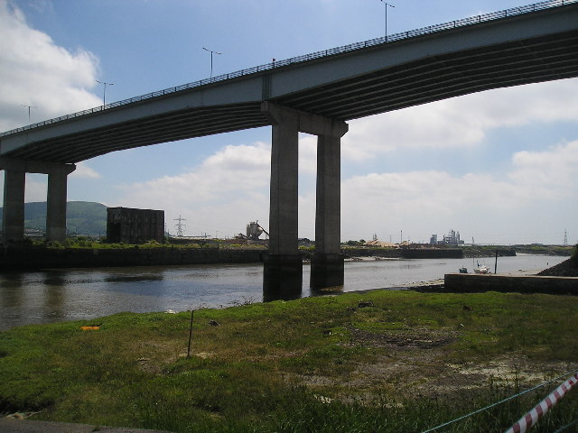 M4 bridge over the River Neath, Briton Ferry, Wales